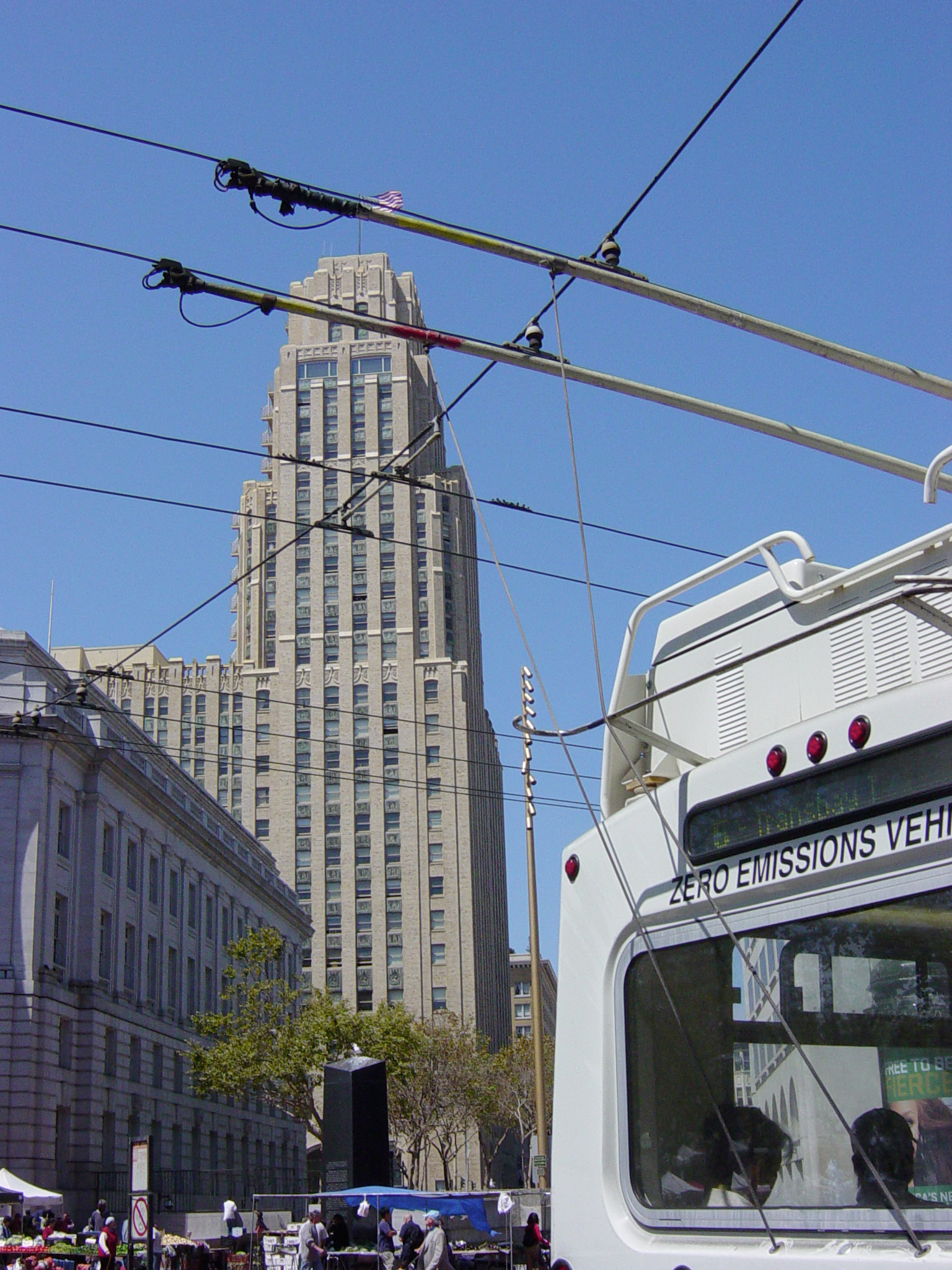 Electric bus trolly mechanism, San Francisco Muni - insulated poles, contactors, and pole pull ropes. Image by User:Leonard G.